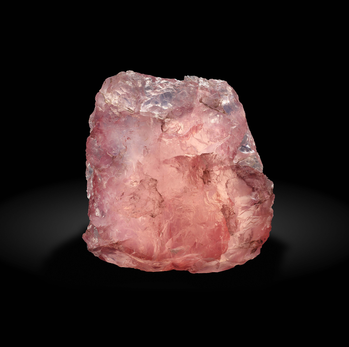 Rose quartz. Alba 1ª mine. Oliva de Plasencia (Cáceres) Spain. Height 7cm Photo J. Callén. Col. M. Calvo